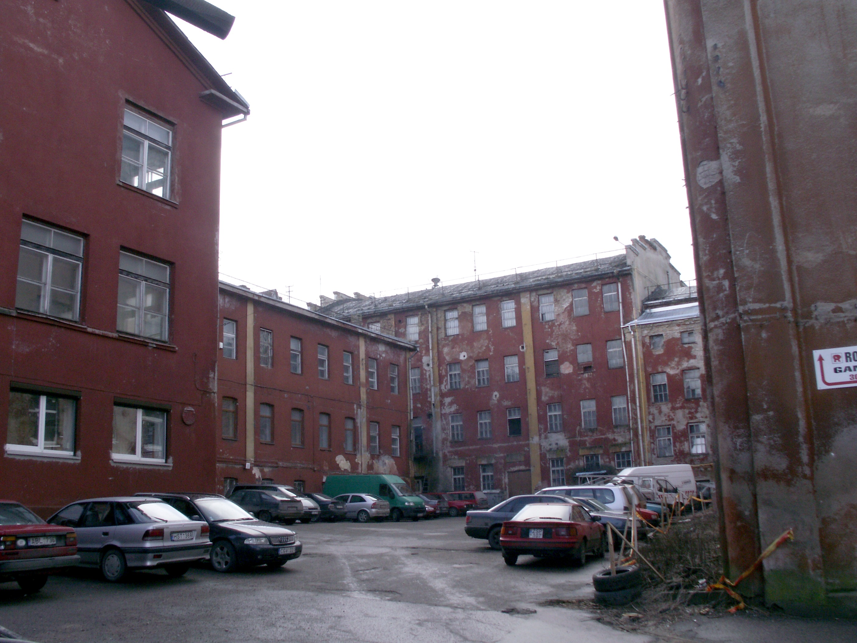 Former Chaimas Frenkelis tannery in Šiauliai